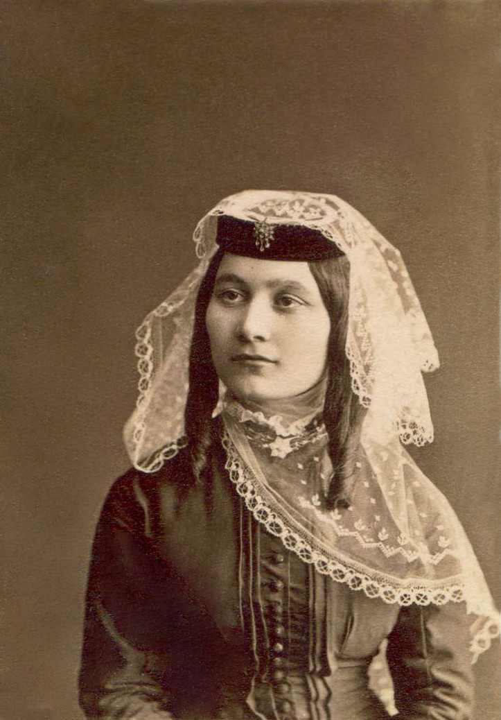 Akhaltsikhe Armenian woman.